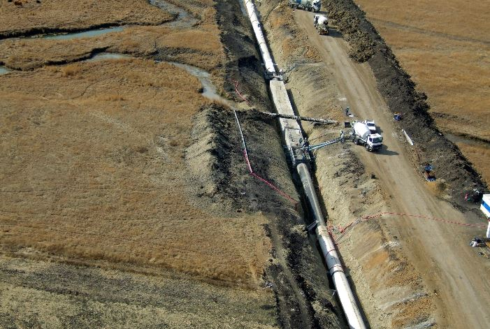 Construction of Vresap pipeline in 2009